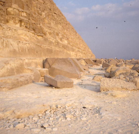 Detail of the first steps of Khafra Pyramid in Giza